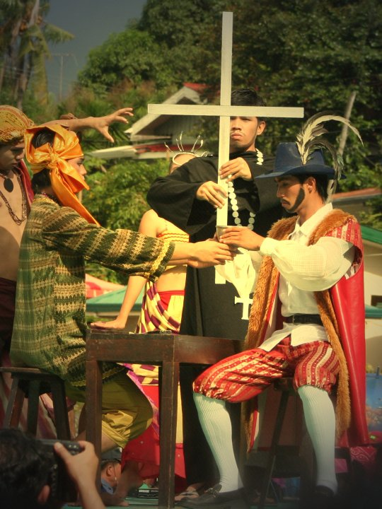 Sandugo Reenactment